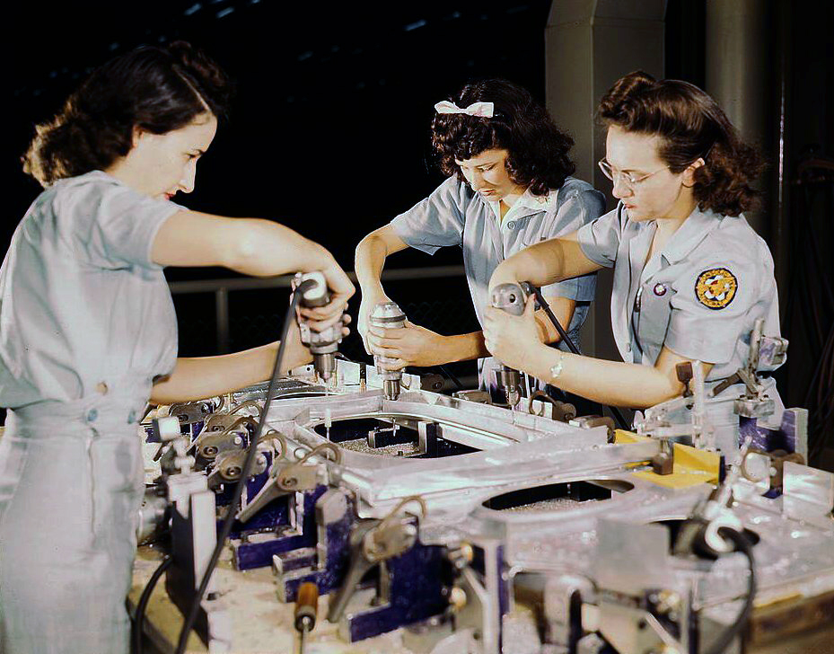 Title: Drilling a wing bulkhead for a transport plane at the Consolidated Aircraft.Consolidated Aircraft factory, Fort Worth, Texas.